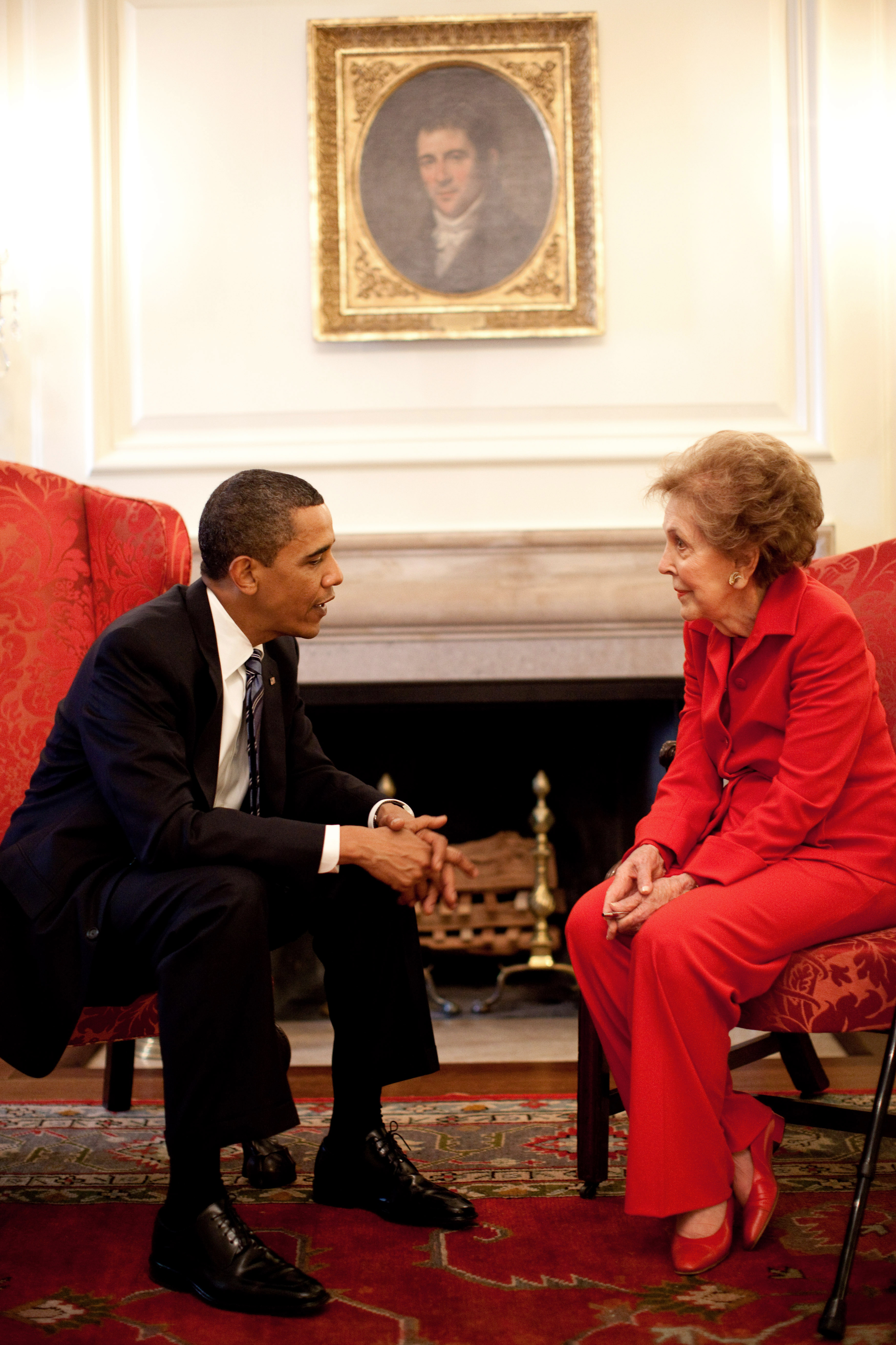 President Barack Obama meets with former First Lady Nancy Reagan prior to a bill signing ceremony in the White House for the Ronald Reagan Centennial Commission Act, June 2, 2009. (Official White House Photo by Pete Souza) This official White House photograph is in the public domain from a copyright perspective, so while restrictions such as personality or privacy rights may apply, in general, manipulations are allowed.